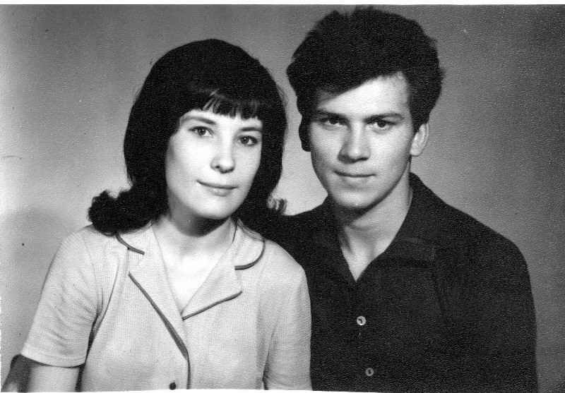 Draft-age youth Leonid Khabarov and his future wife Tonya (Antonina). Mid 1960s.